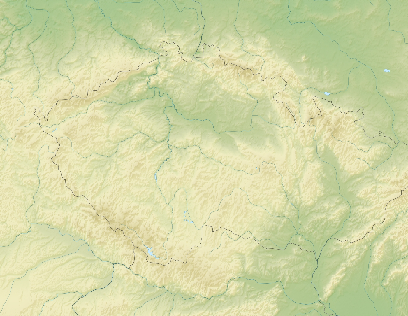 Location map of Bohemian_Massif. Projection: Equirectangular projection, strechted by 155.0%. Geographic limits of the map: N: 51.5° N S: 48.0° N W: 11.5° E E: 18.5° E GMT projection: -JX23.706666666666667cd/18.372666666666667cd GMT region: -R11.5/48.0/18.5/51.5r GMT region for grdcut: -R11.5/48.0/18.5/51.5r Relief: SRTM30plus. Made with Natural Earth. Free vector and raster map data @ .